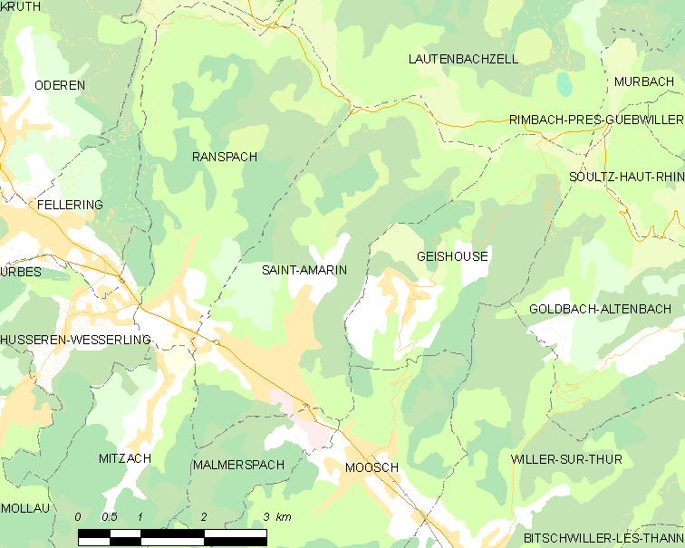 Map of French municipality